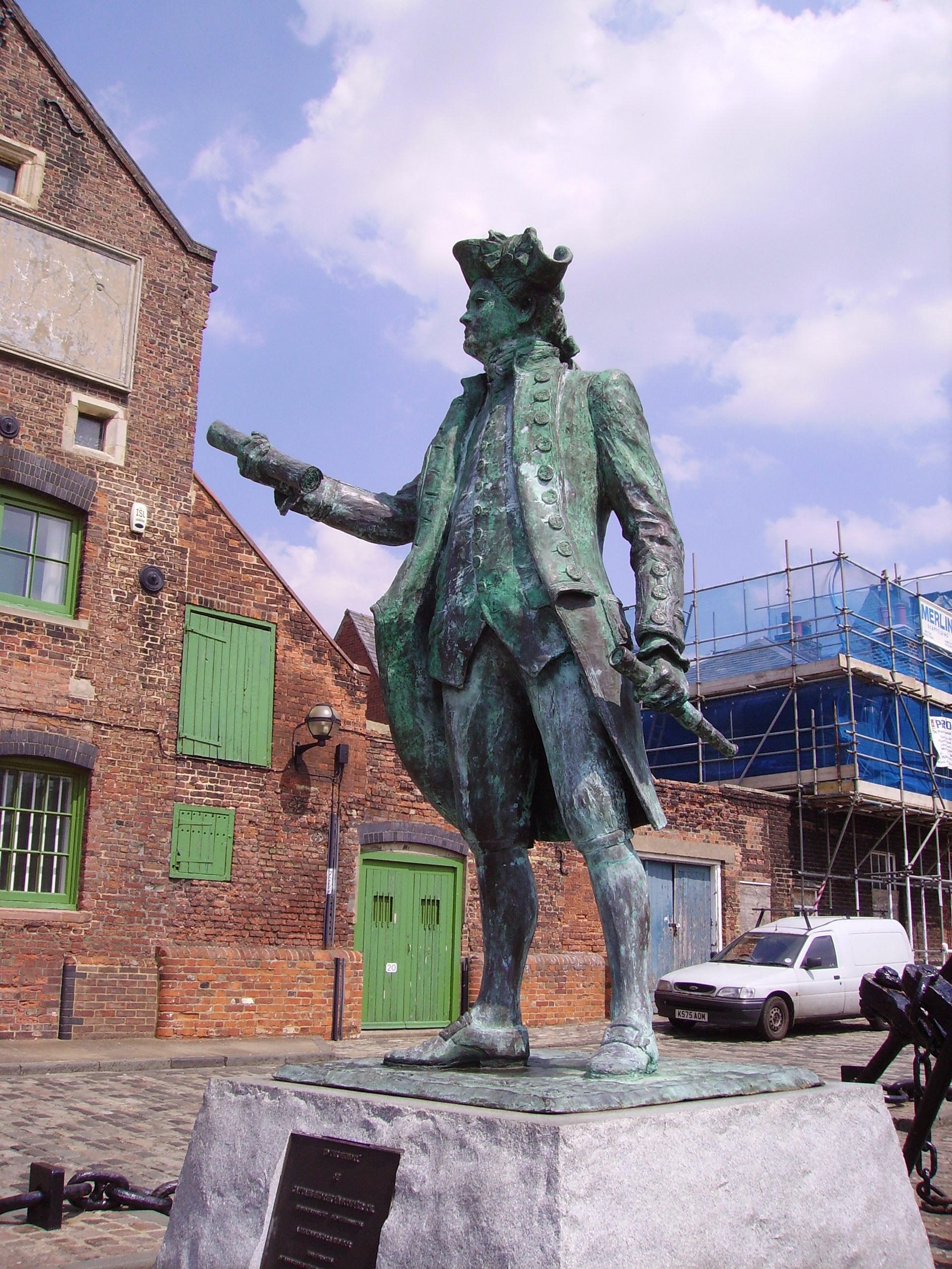 statue of George Vancouver in King's Lynn in East Anglia, United Kingdom